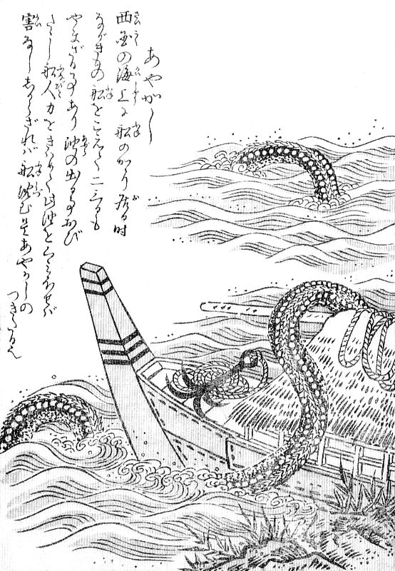 Ayakashi (あやかし, another name for the ikuchi, also another name for demons or yokai) from the Konjaku Hyakki Shūi (今昔百鬼拾遺)